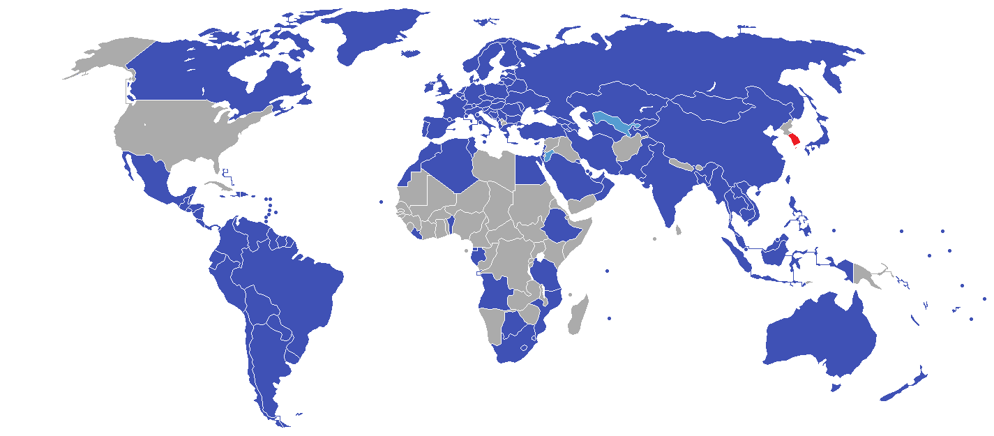 Visa policy of South Korea for holders of diplomatic or service category passports South Korea Visa free access for diplomatic and service category passports Visa free access for diplomatic passports